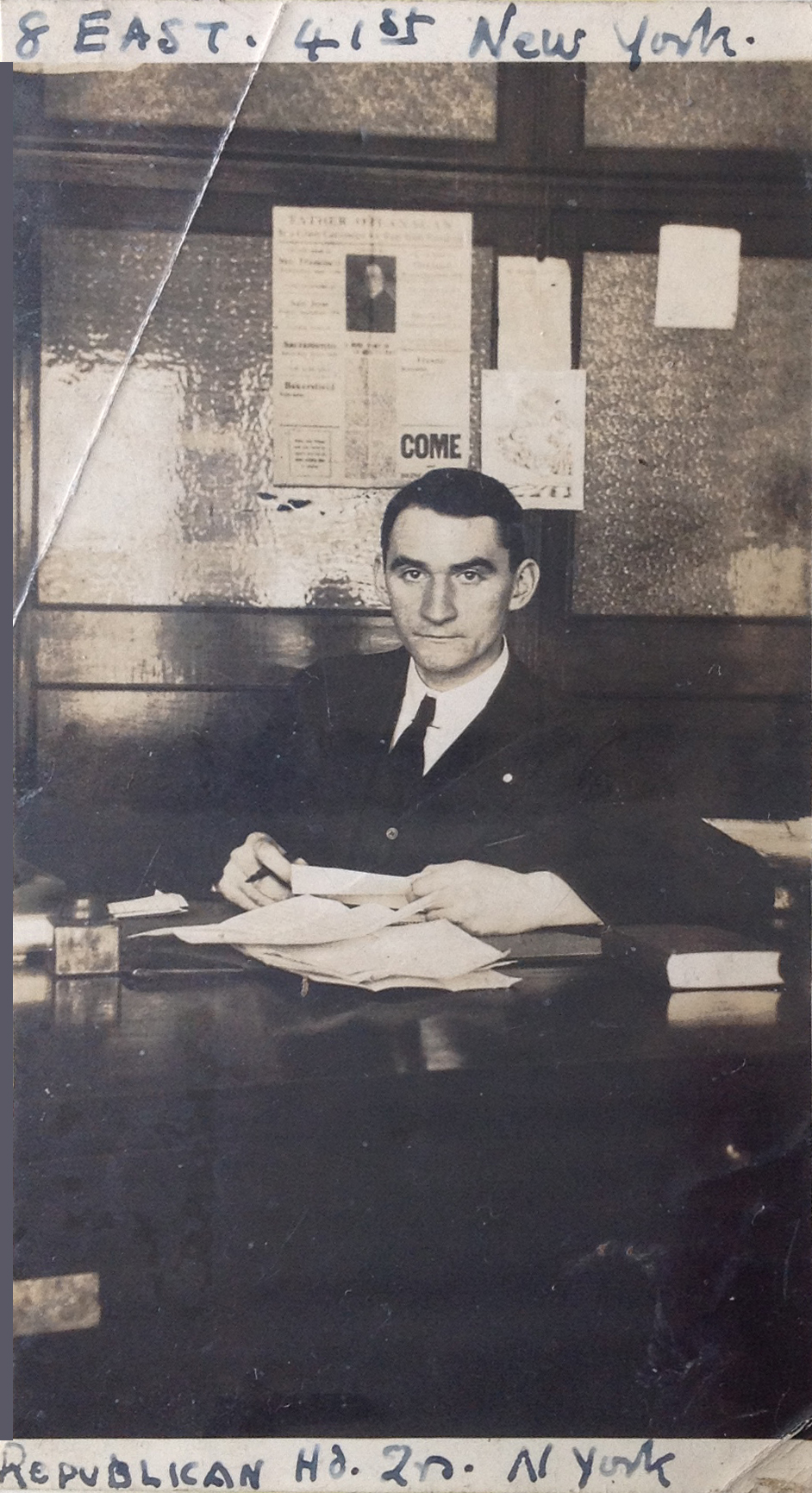 Joseph O'Doherty at the Irish Republican Office in New York, sometime between 1922-1926. This file is made available under the Creative Commons CC0 1.0 Universal Public Domain Dedication. The person who associated a work with this deed has dedicated the work to the public domain by waiving all of their rights to the work worldwide under copyright law, including all related and neighboring rights, to the extent allowed by law. You can copy, modify, distribute and perform the work, even for commercial purposes, all without asking permission.